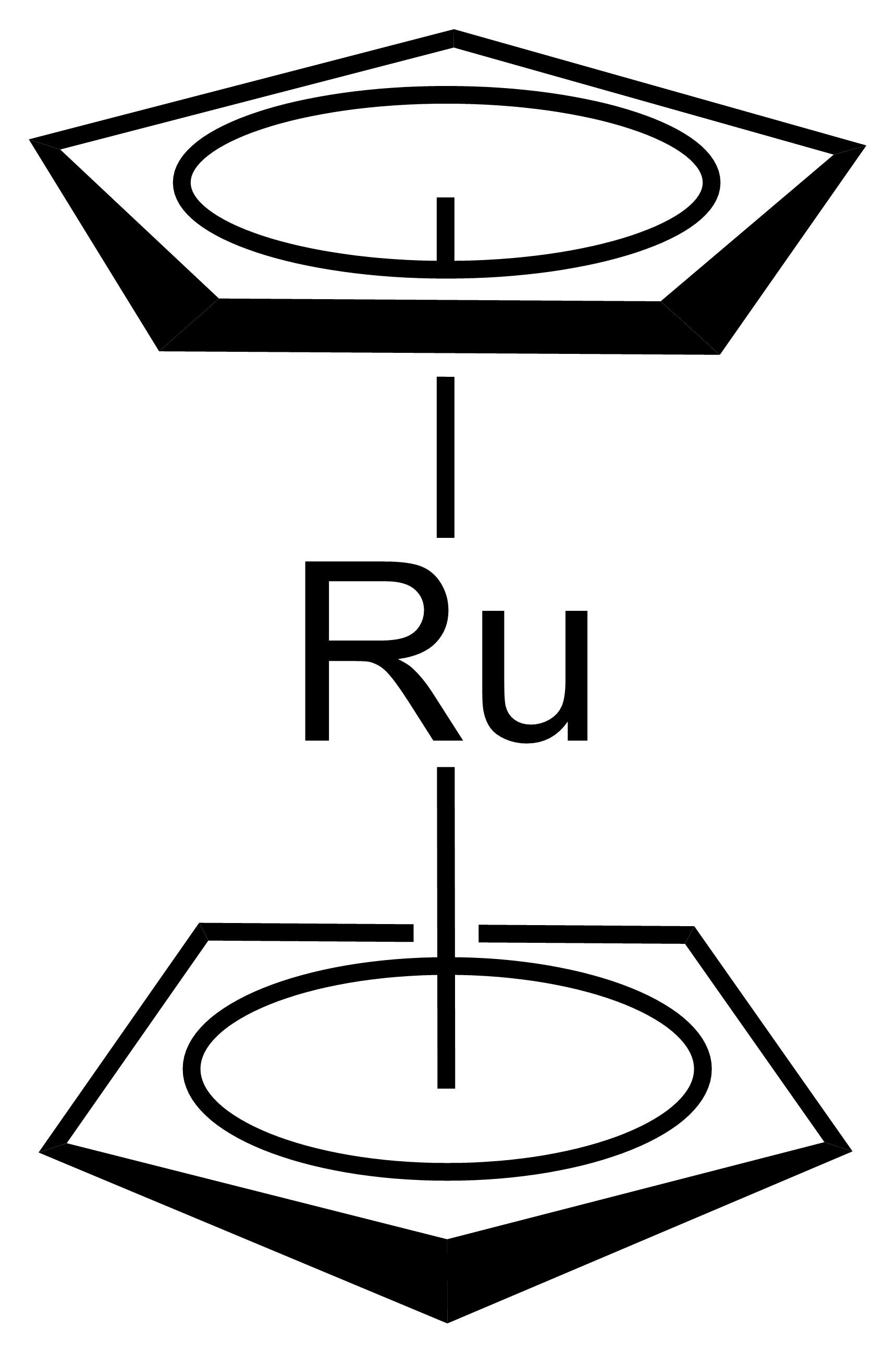 Ruthenocene